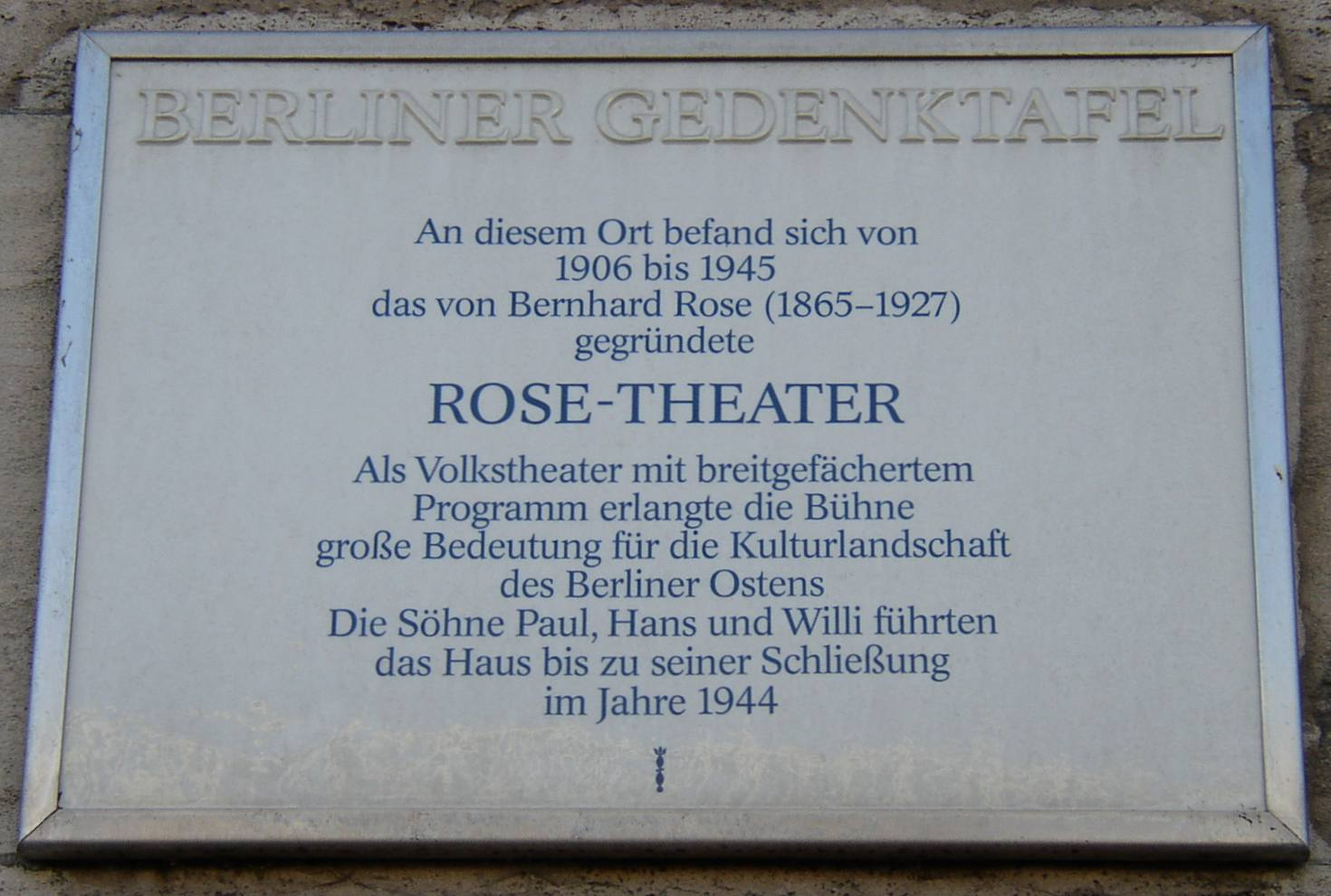 Berlin memorial plaque for the Rose Theatre in Karl-Marx-Allee, Friedrichshain, Berlin.